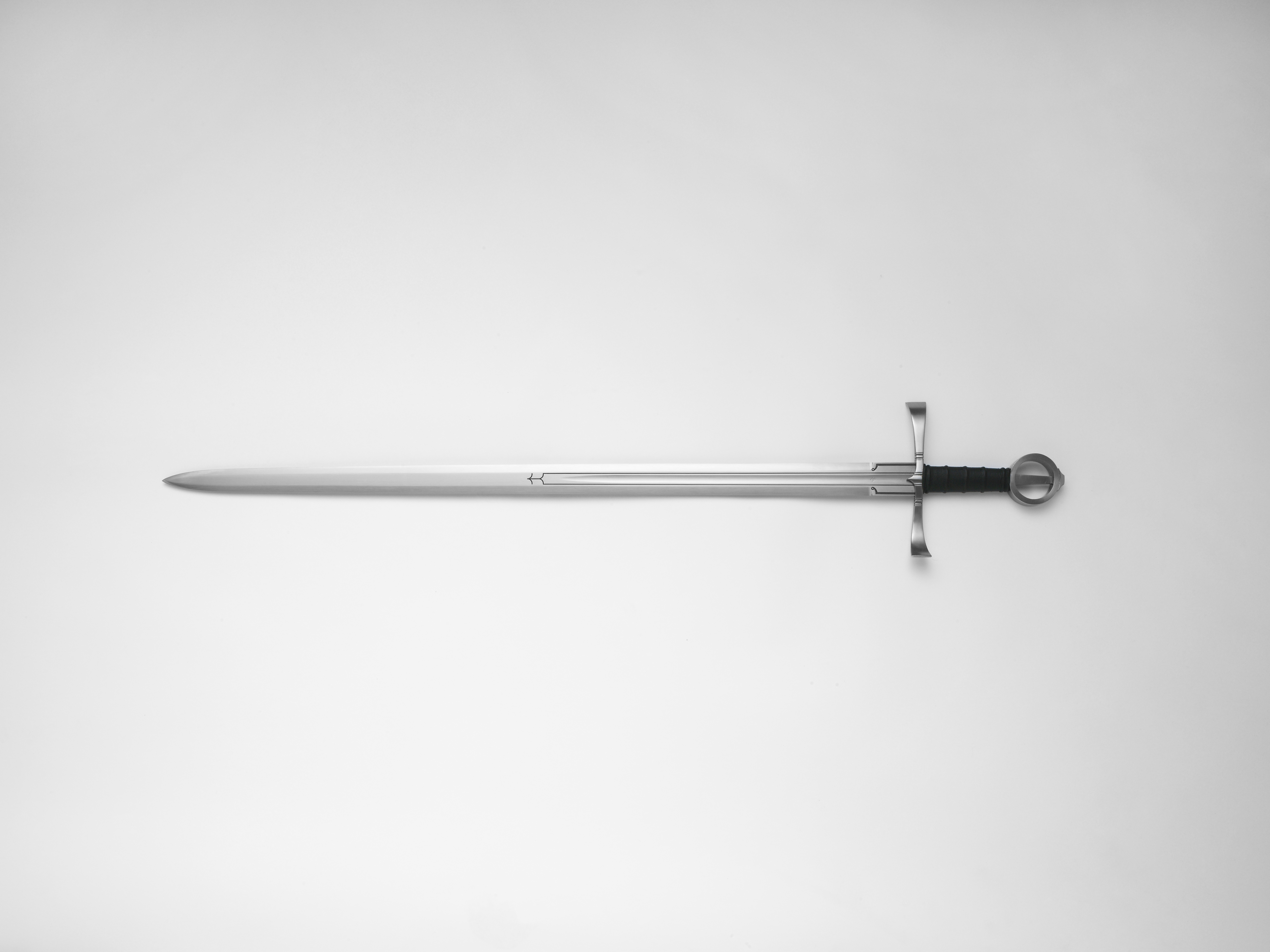 The Kern Limited Edition Irish Sword